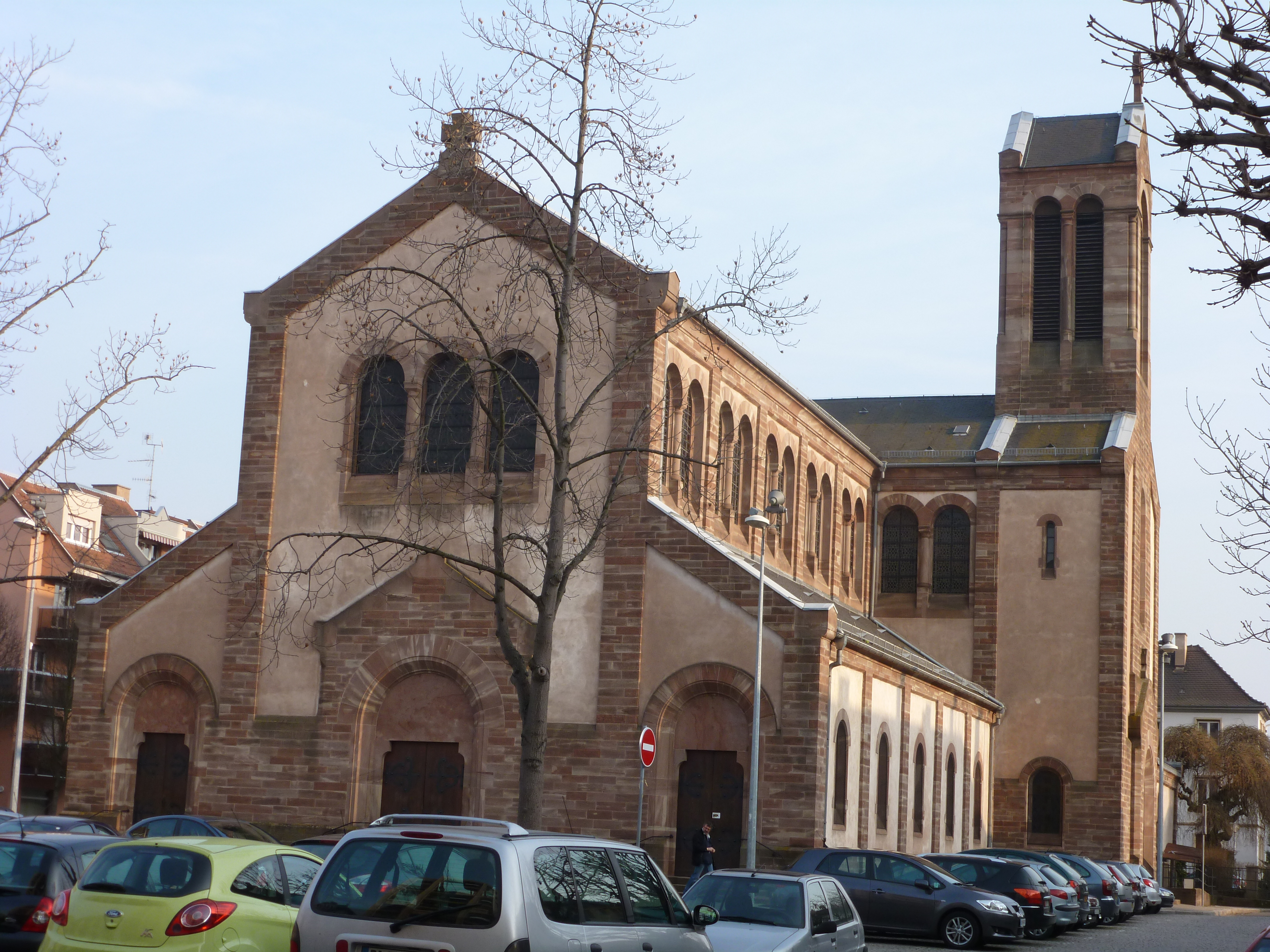 church Saint Aloyse (Aloysius Gonzaga) in Strasbourg Neudorf